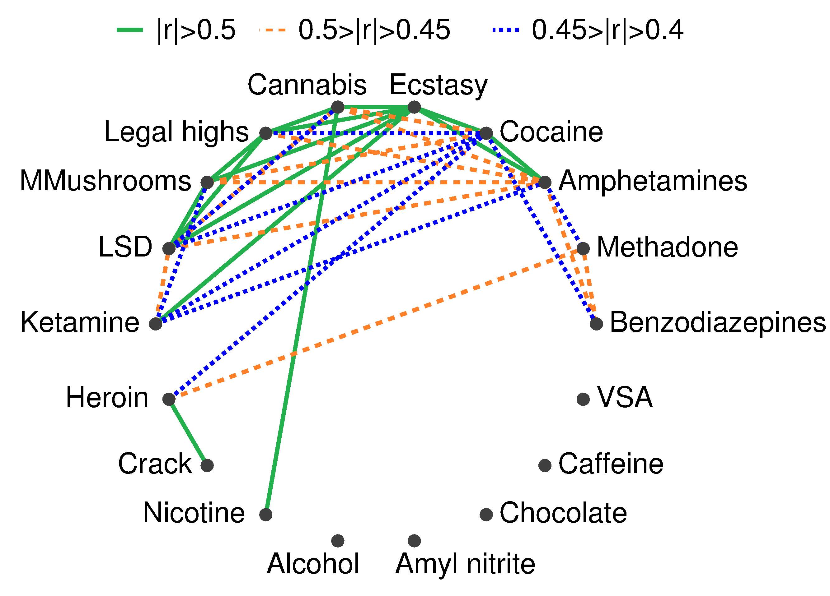 r